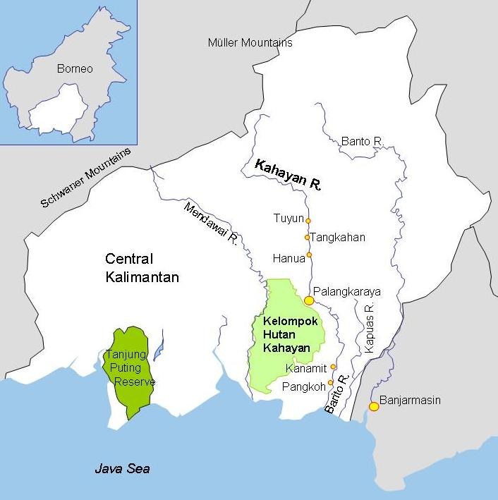 Map of Central Kalimantan showing the Kahayan River